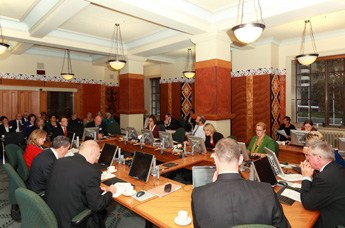 A select committee hearing in action during the 49th Parliament. Photo: Office of the Clerk.